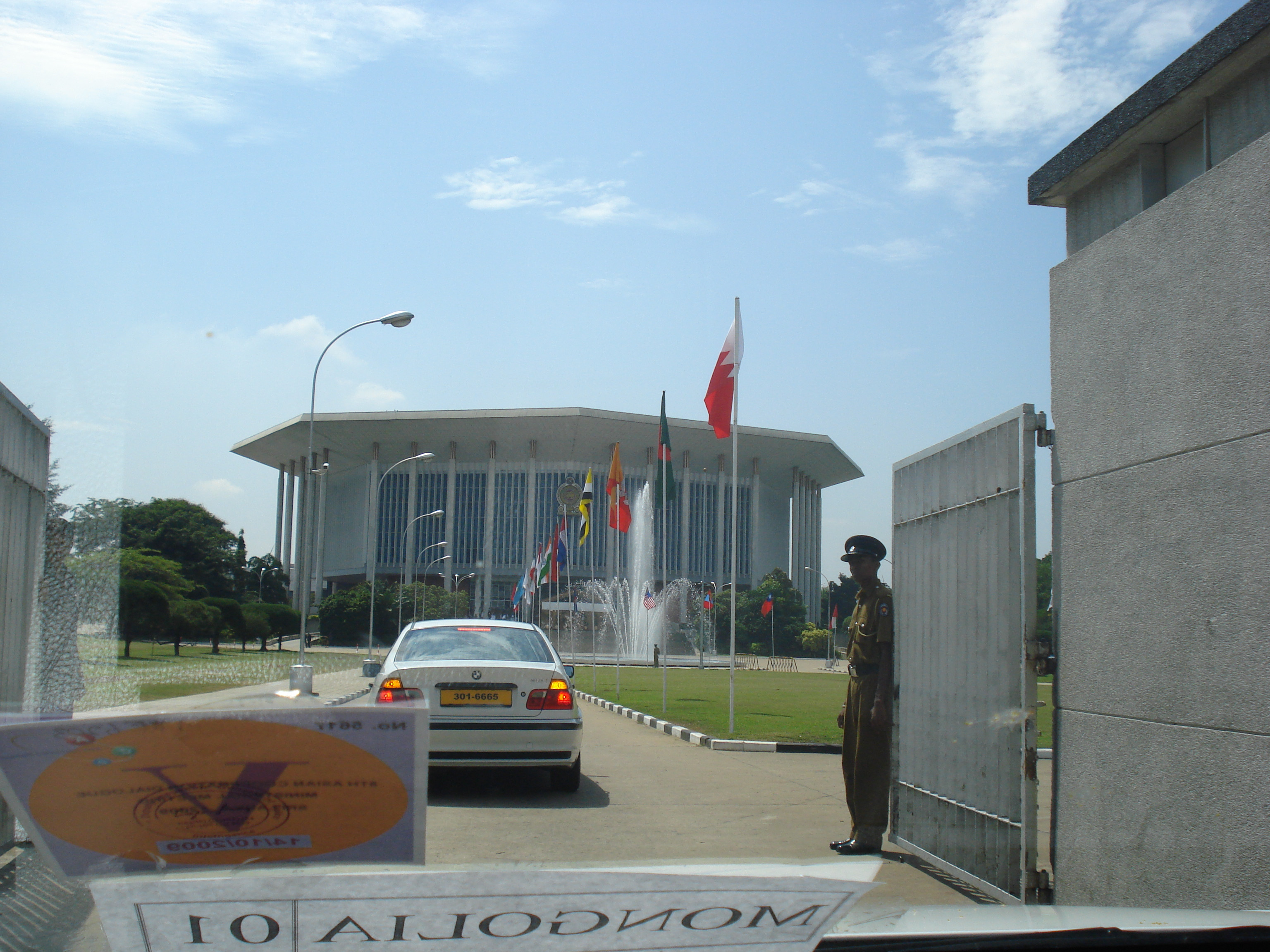 BMICH Convention hall in Colombo, Sri Lanka during ACD 8 ministerial meeting.